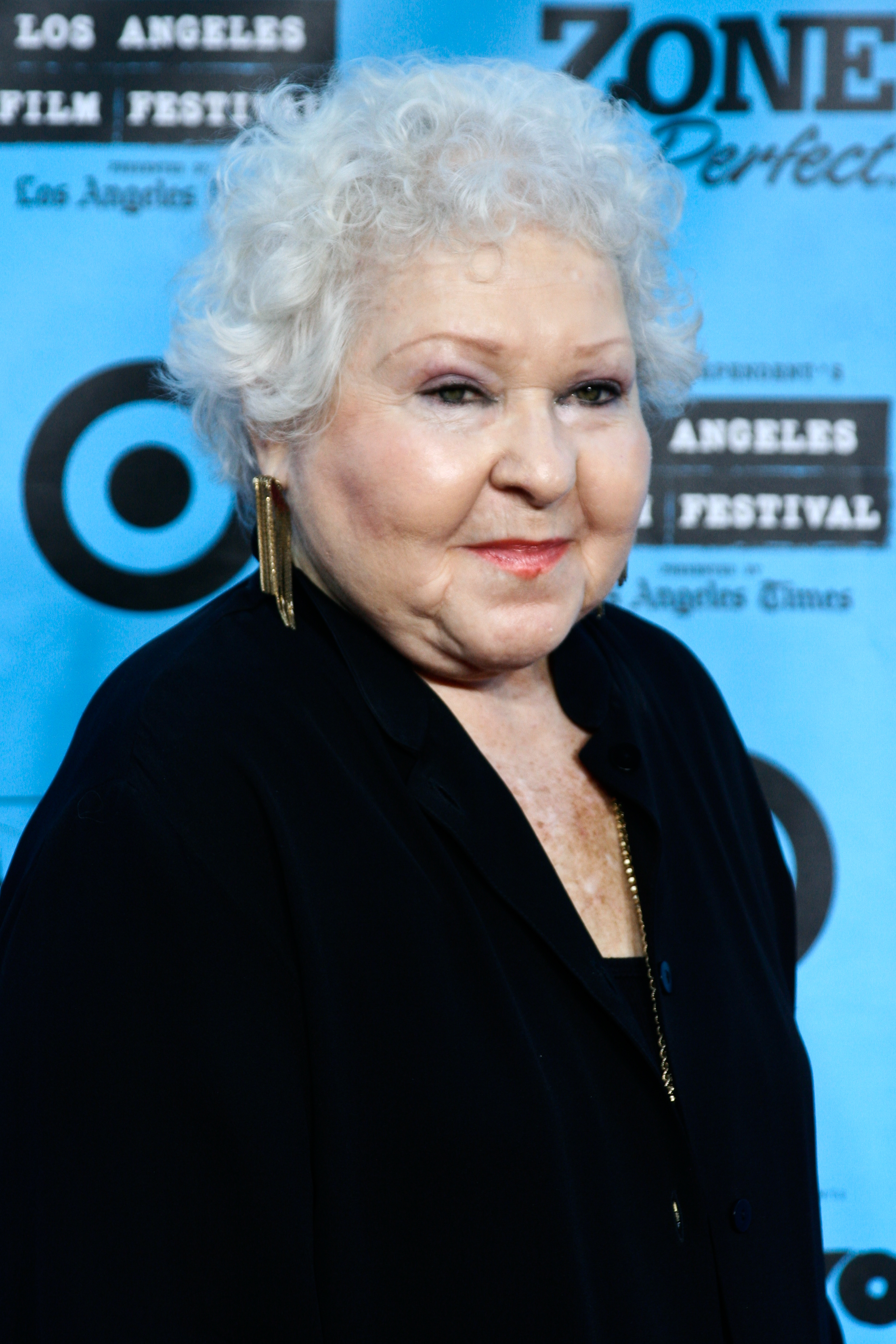 Actress Estelle Harris at the red carpet premiere of Ponyo. It took place at the Mann Village Westwood during the 2009 Los Angeles Film Festival.